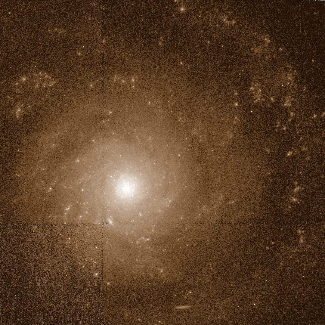 Color rendering is done by by Aladin-software (2000A&AS..143...33B.)